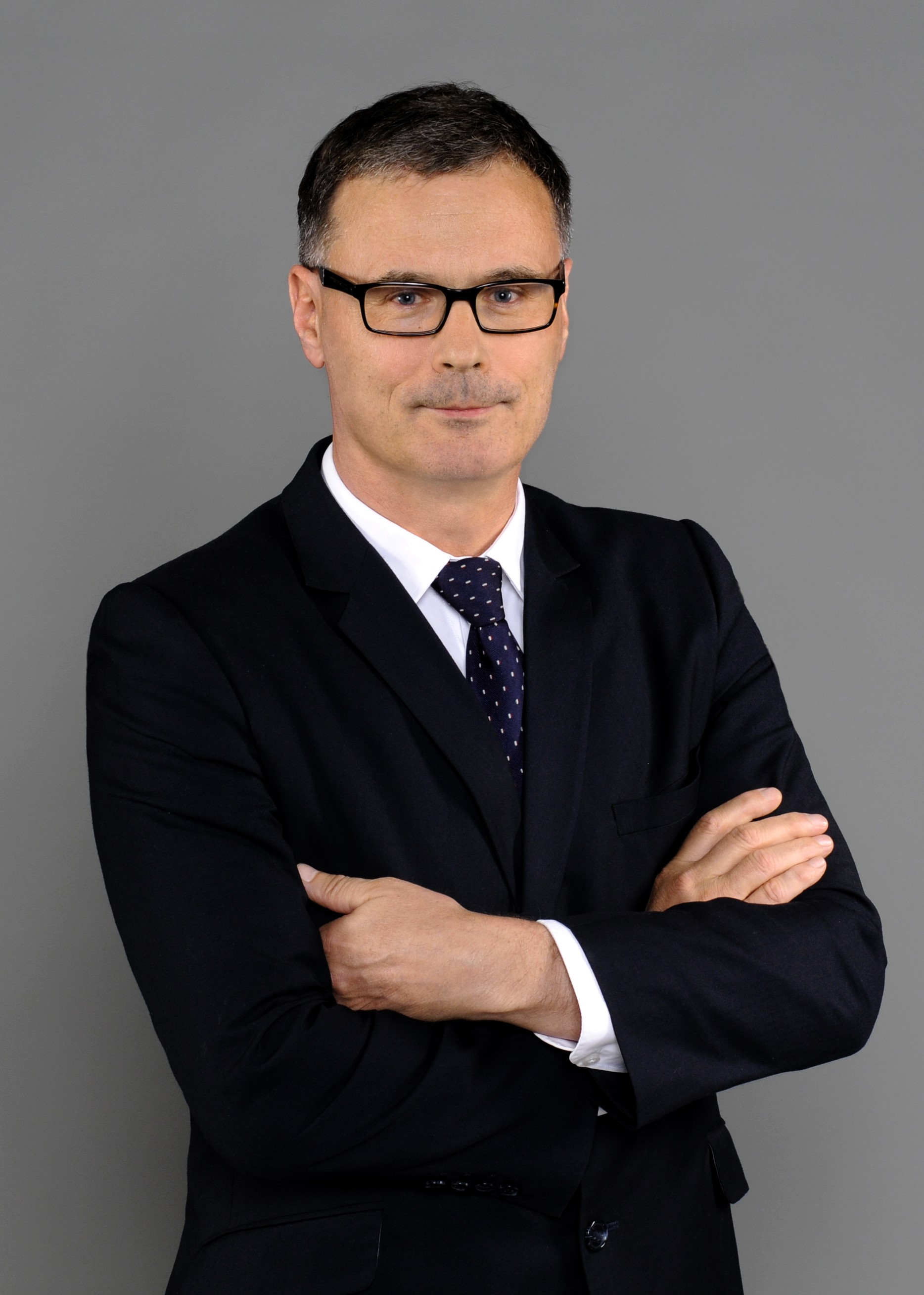 Portrait photo of Paweł Wojciechowski